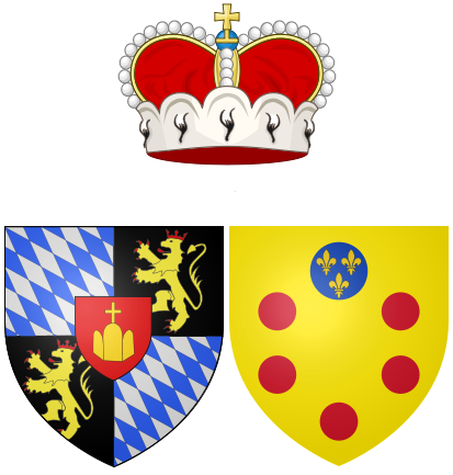 Coat of arms of Anna Maria Lusia de' Medici as Electress Palatine